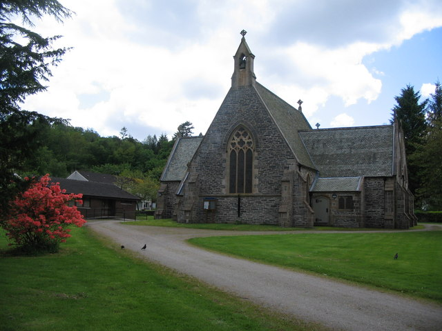 St. Modans, Rosneath. A view looking west from Tom-a-Mhoid towards the church of St. Modan. A plaque at the entrance to the churchyard states " There has been a Christian church in Rosneath since the time of St. Modan in the 7th century. Near the present Church are the ruins of an earlier sanctuary surrounded by an Historic Churchyard."